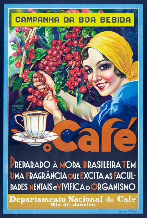 É um banner/folheto/imagem de uma campanha feita pelo Departamento Nacional do Café. Era um órgão público, a campanha era pública. Ela está publicada no Pinterest.